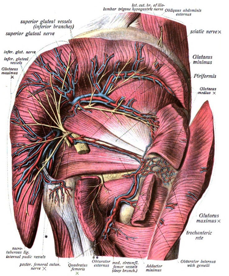 An anatomical illustration from Sobotta's Human Anatomy 1908